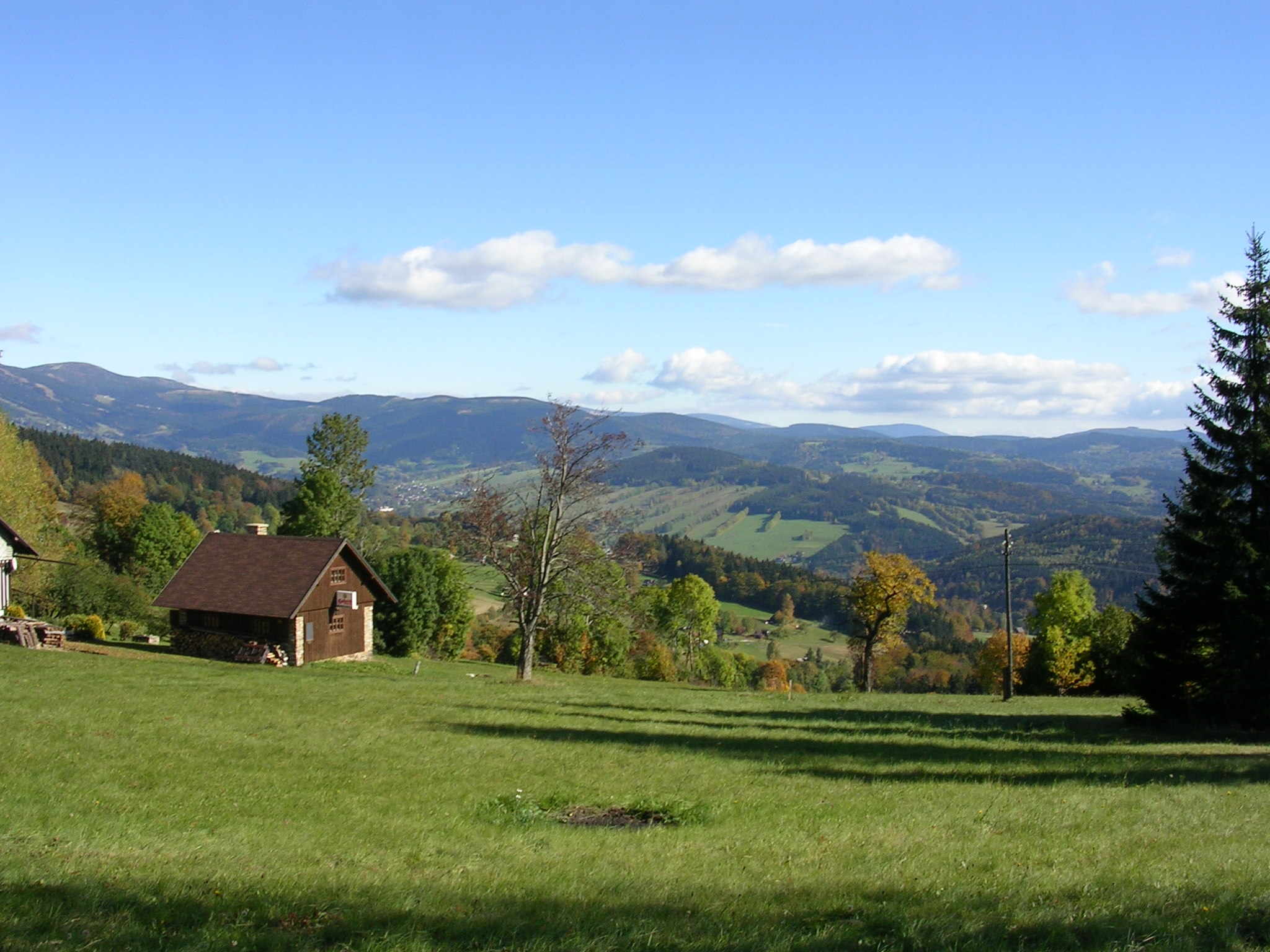 Paseky nad Jizerou, Liberec Region, the Czech Republic.